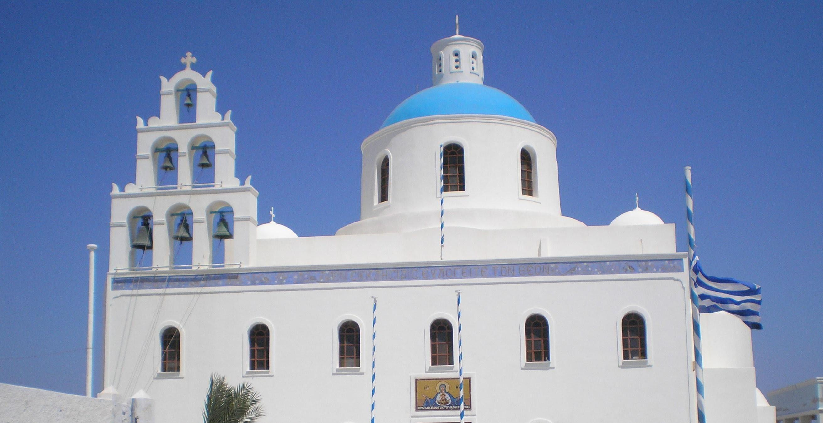 Panagia Platsani Church in Santorini, Greece.